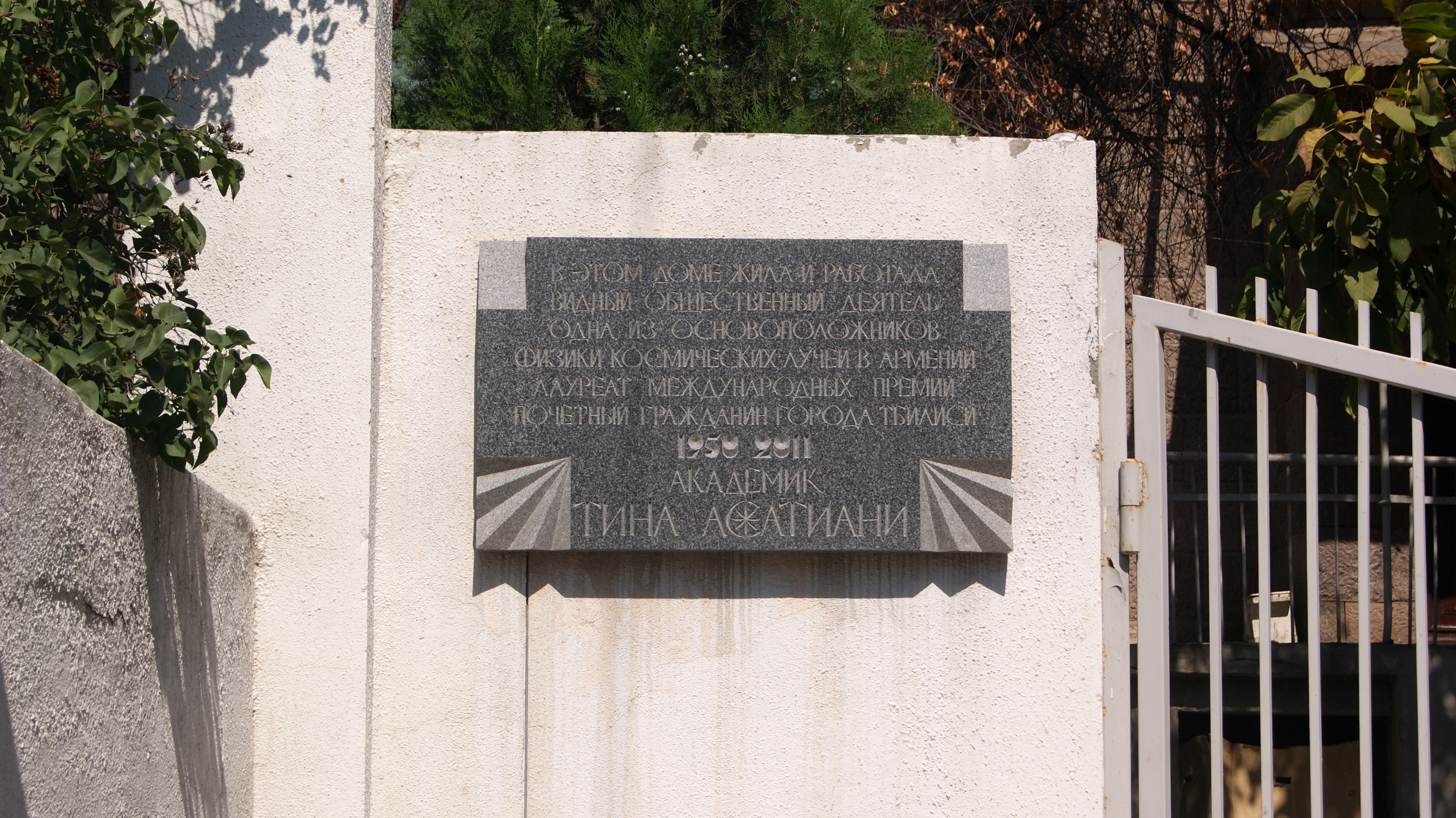 Plaque to Tina Asatiani